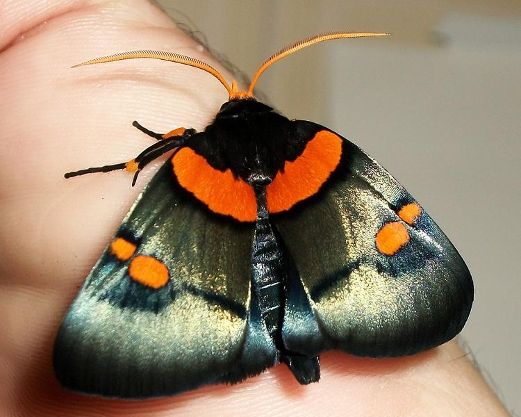 African Peach Moth drying wings after hatching from pupa, Amanzimtoti, South Africa.